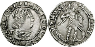 Italy, Kingdom of Naples. Ferdinand I "Ferrante" of Aragon. 1458-1494. AR Coronato (3.96 gm). Naples mint; Giancarlo Tramontano, mintmaster. Struck 1488-1494. FERRANDVS (double annulet) D (double annulet) G (double annulet) R (annulet) SICILIE (double annulet) I (double annulet), crowned, armored, and draped bust right; T behind bust St. Michael standing facing, holding spear and shield, slaying dragon underfoot; three annulets on spear. Notes: Ferdinand, the illegitimate son of Alfonso the Magnanimous of Aragon, was installed as king of Naples upon his father's death in 1458, having resided in Italy for the previous twenty years. Although the coinage accords him the title of King of Sicily (and Jerusalem), Alphonso's younger brother John held Aragon, Sardinia and Sicily. Ferdinand I, called Ferrante to distinguish him from Ferdinand the Catholic, was thoroughly Italian in his outlook, patronizing the arts and centers of learning, while ruling with utter ruthlessness. His coronato coll'angelo, with its striking image of the Lord's justice, marks the suppression of the "Conspiracy of the Barons" (1485-1487), a revolt by local Italian nobles upset by the growing power of the Neopolitan king. Ferrante had promised pardons to those nobles who surrendered, but after the end of the rebellion he imprisoned and executed the leaders of the uprising. His faithlessness earned Ferrante a blackened reputation for cruelty and betrayal.